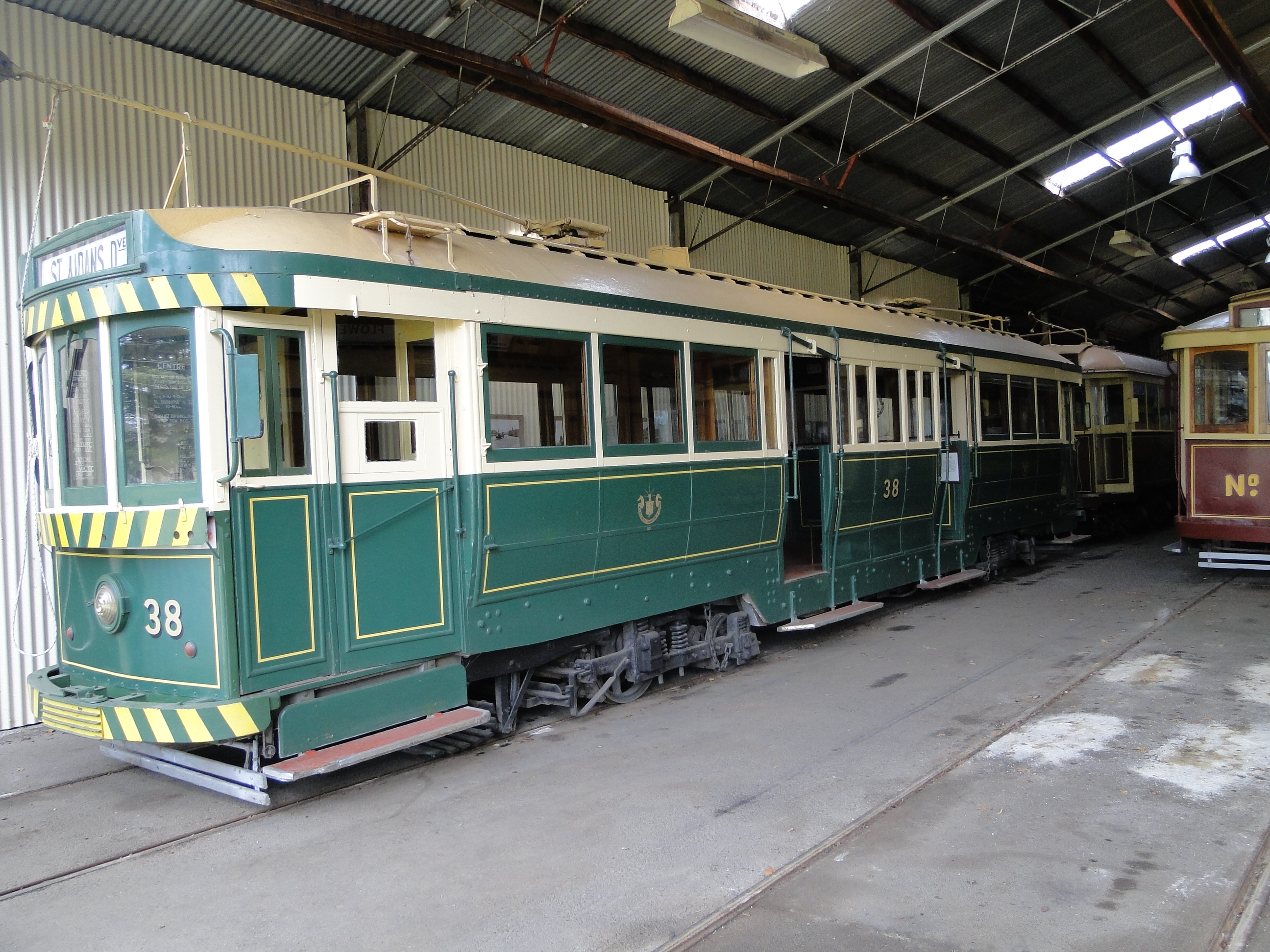 Ballarat tram 38 built in 1914 by Duncan and Fraser for the Prahran and Malvern Tramways Trust, at the Ballarat Tramway Preservation Society, Lake Wendouree, Ballarat, Victoria, Australia